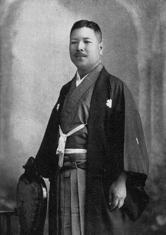 Tatsuoki Hosokawa